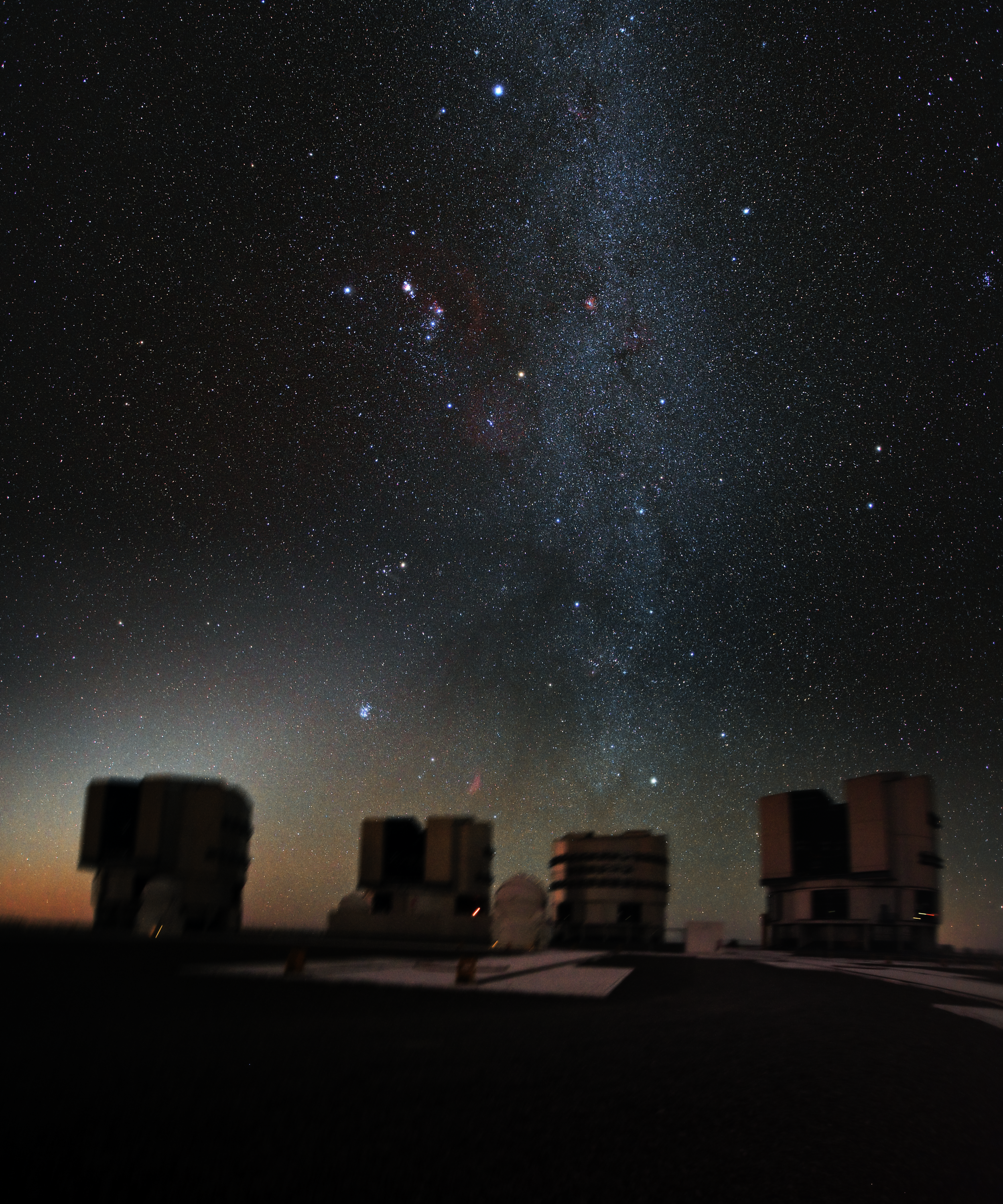 The great hunter Orion hangs above ESO’s Very Large Telescope (VLT), in this stunning, previously unseen, image. As the VLT is in the Southern Hemisphere, Orion is seen here head down, as if plunging towards the Chilean Atacama Desert. At night the four giant 8.2-metre Unit Telescopes of the VLT are all turned skywards to help astronomers in their quest to understand the Universe. The band of the Milky Way, criss-crossed by contrasting dark dust lanes, stretches up over the VLT’s Unit Telescope 3 (Melipal), with the bright star Capella glinting just above the telescope. Up and to the left, Orion’s belt and sword, containing the Orion Nebula, lie between the blue star Rigel and the orange Betelgeuse. The red Rosetta Nebula is seen in the middle part of the Milky Way, while Sirius, the brightest star in the night sky, hangs above the scene. The red patch just above the VLT Unit Telescope 2 (Kueyen) is the California Nebula, nicely offset by the blue of the beautiful Pleiades star cluster a little to the left and above.